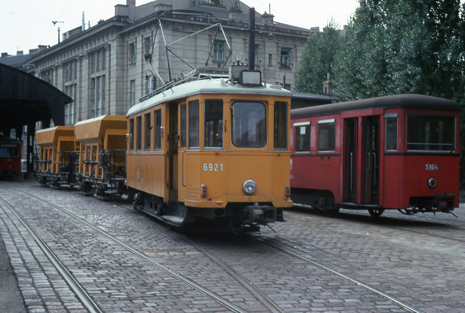 Works train of the Stadtbahn wien at Michelbeuern station.